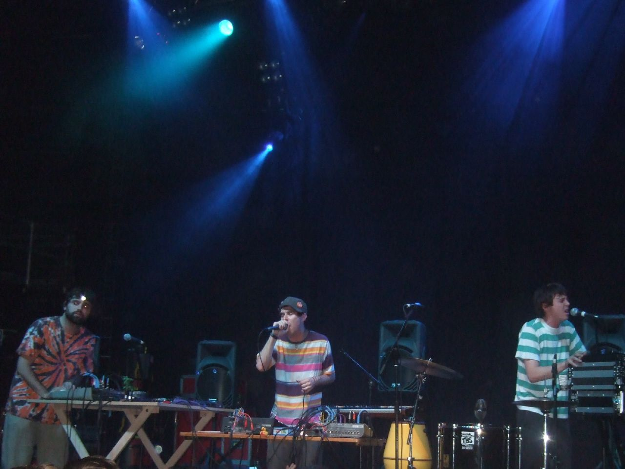 Animal Collective London Coronet